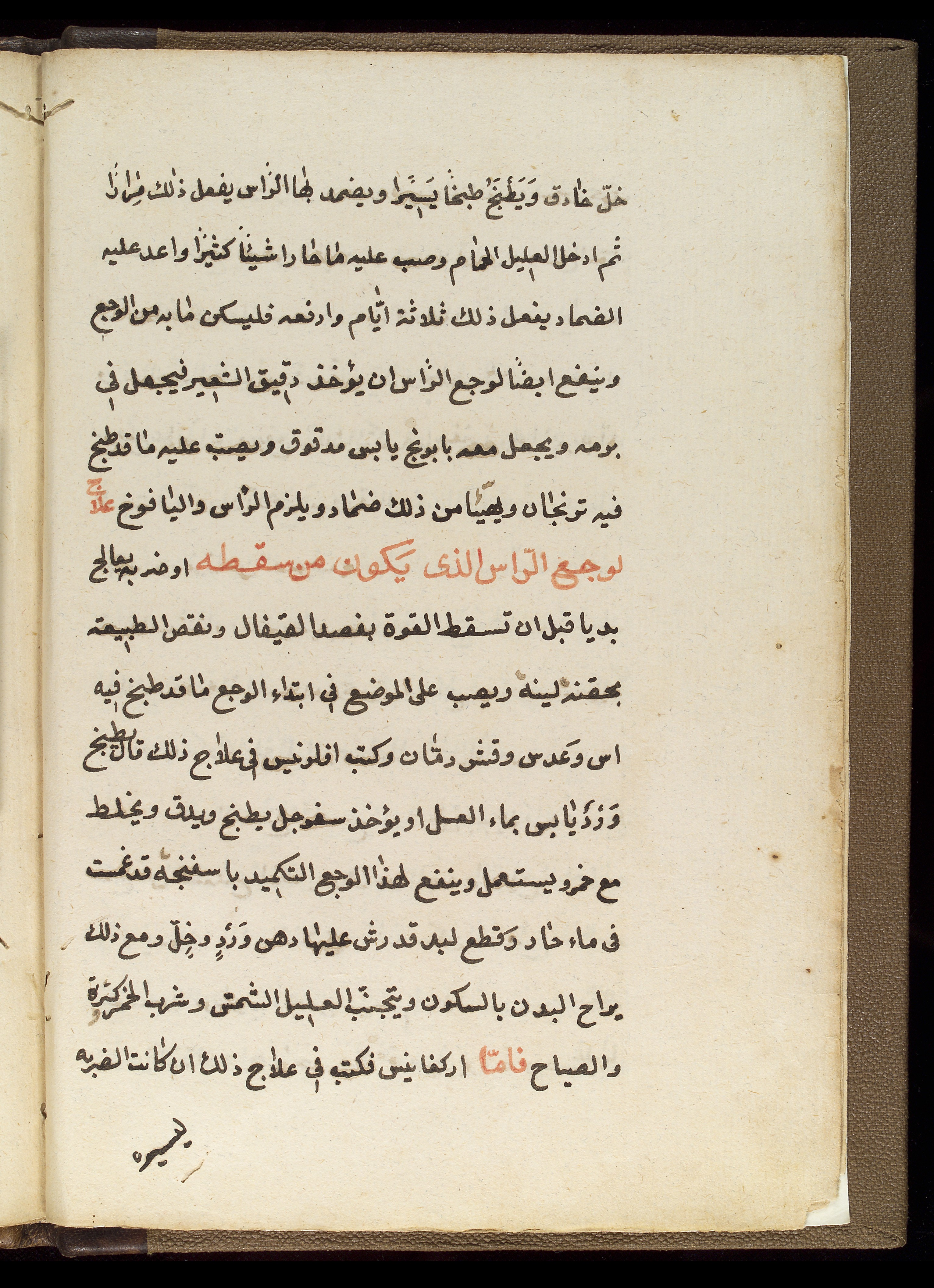 Page from Kitab Tibb al-Fuqara' wa-l-Masakin, an Arabic medical compendium concerning treatment of various diseases, and designed for the poor. Asian Collection Keywords: Arabic